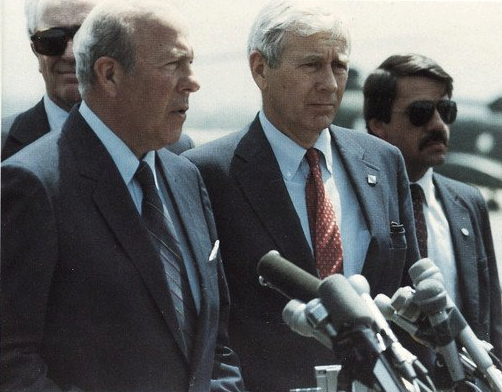 The United States Secretary of State, George P. Shultz, in 1983. The photo was most probably taken on 28 April 1983: Shultz (at the microphone) is surrounded by Office of Security special agents at the recently bombed U.S. Embassy in Beirut, Lebanon. U.S. Ambassador to Lebanon Robert Dillon, stands beside Shultz.